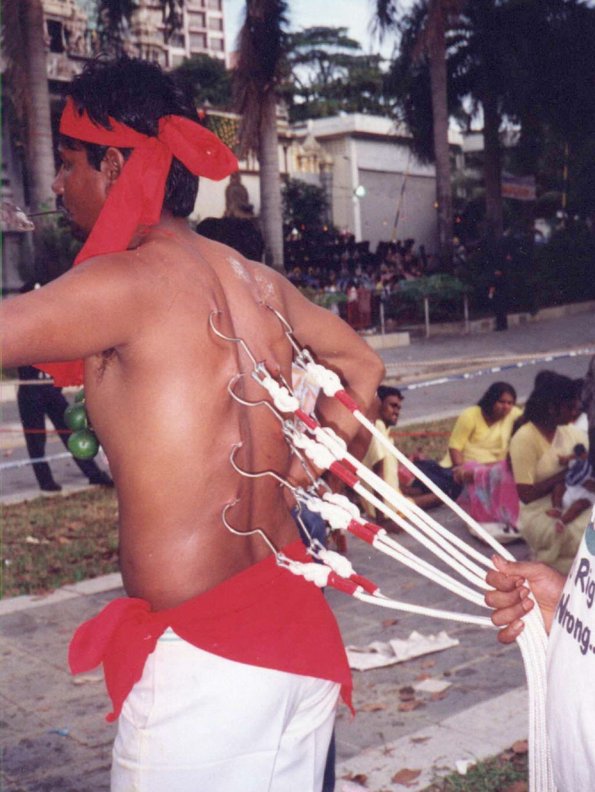 Taipoussan procession in Singapour Mercy)